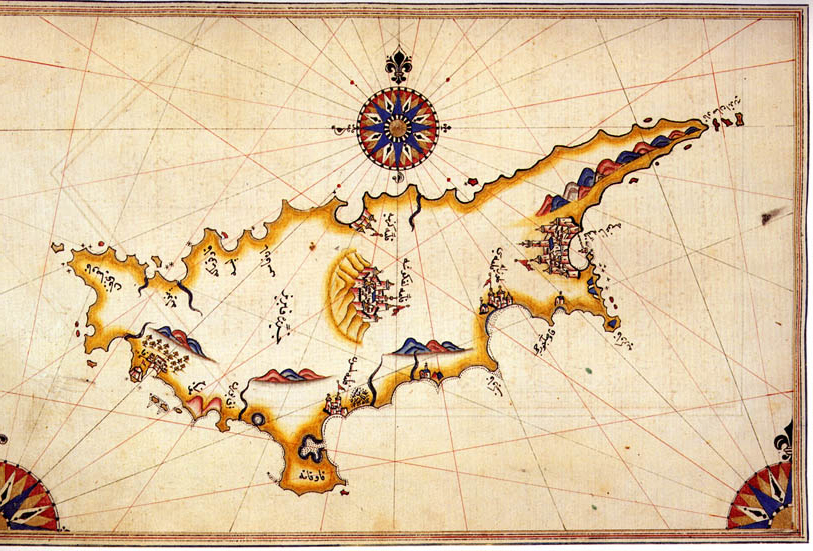 Cyprus in the 16th-century Kitab-ı Bahriye (Book of Navigation) of Piri Reis, an Ottoman admiral.